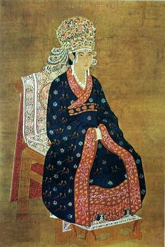 The Official Imperial Portrait of Song Dynasty's Empresses